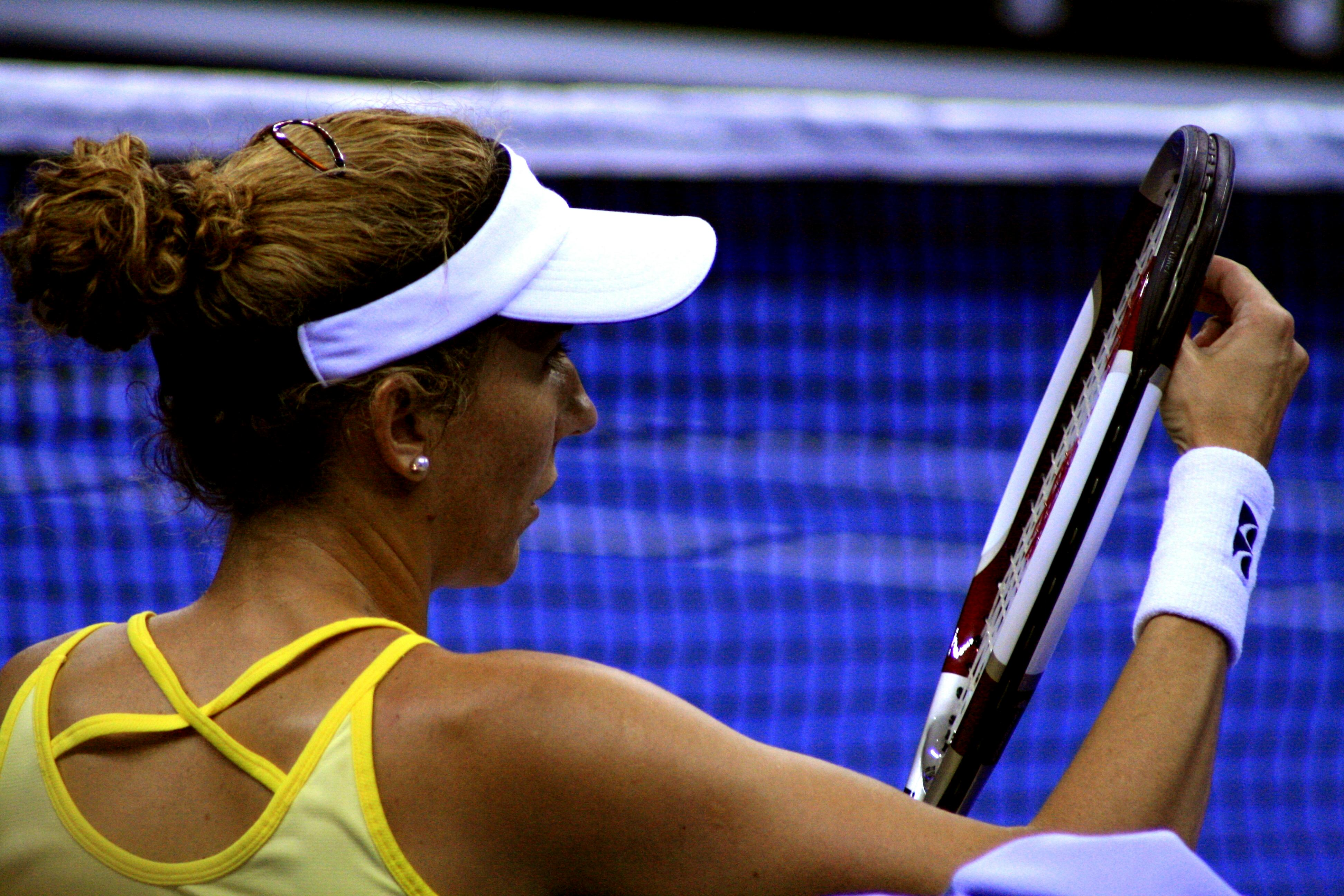 Monica Seles adjusting her racket strings